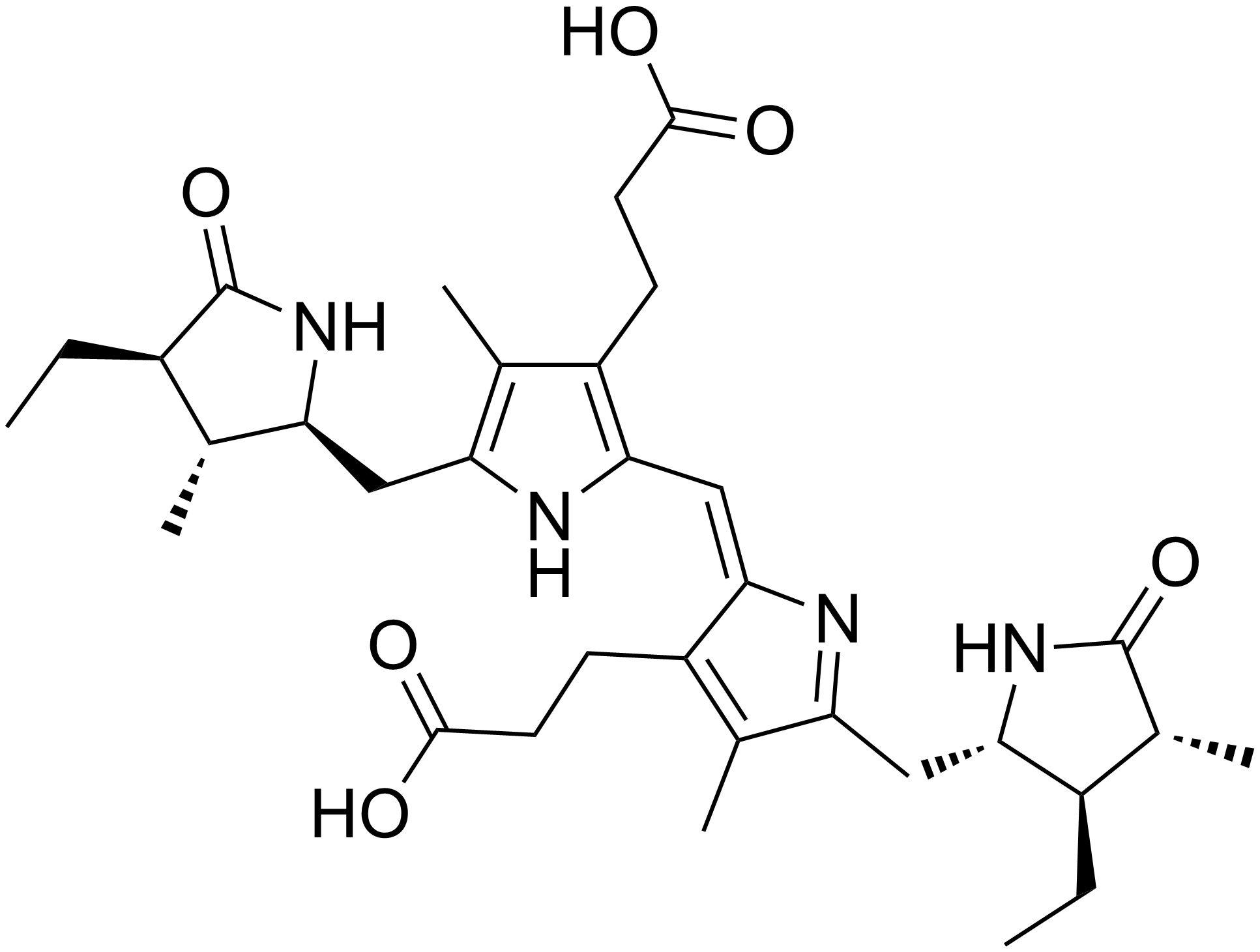 chemical structure of stercobilin created with ChemDraw